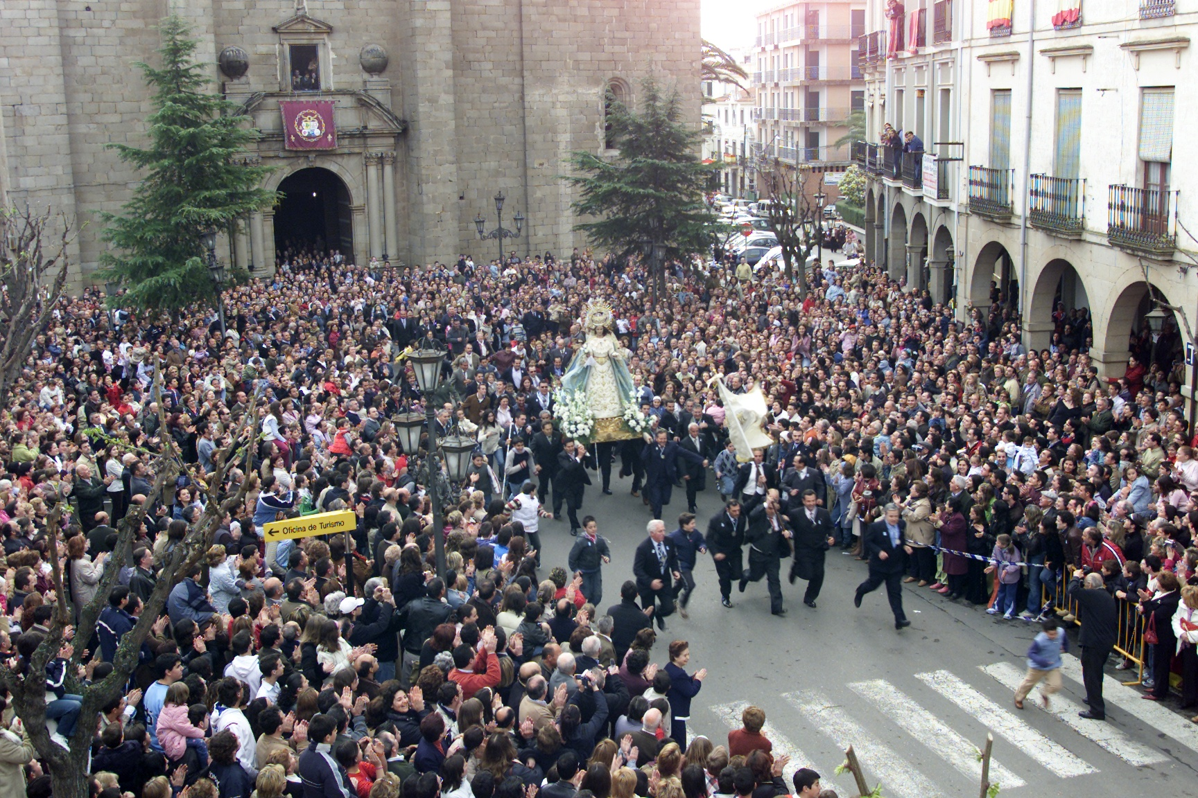 La carrerita ("the Little Run"), Villanueva de la Serena, from the balcony of the town hall.